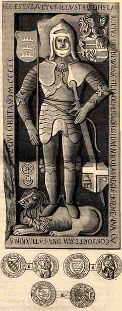 Lőrinc Ujlaki, Hunagrian medieval duke's sarcophague